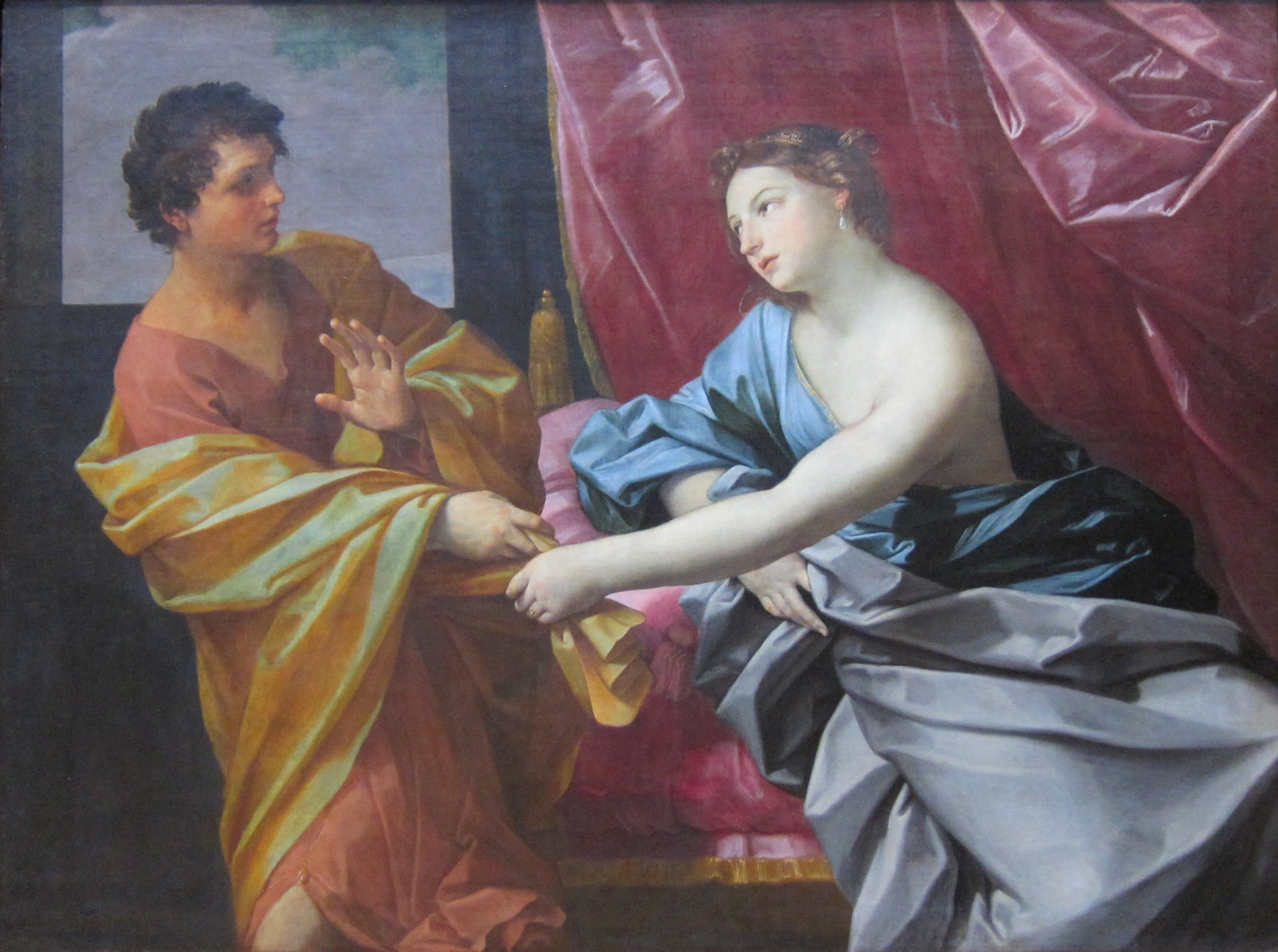 Joseph and Potiphar’s Wife